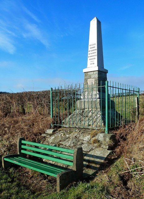 Maybole Covenanters Remembered